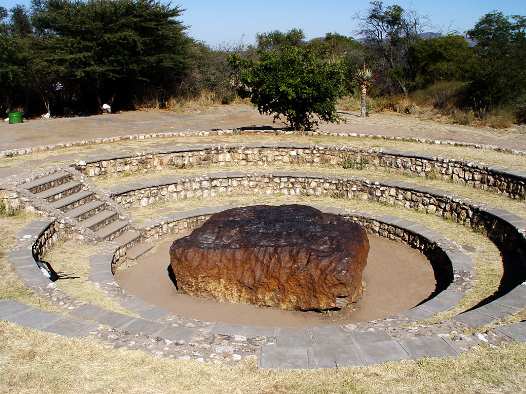 The Hoba meteorite is the largest known meteorite found on Earth, as well as the largest naturally-occurring mass of iron known to exist on the earth. The meteorite, named after the Hoba West Farm in Grootfontein, Namibia where it was discovered in 1920, has not been moved since it landed on Earth over 80,000 years ago. The Hoba meteorite is a tabloid body of metal, measuring 2.7 by 2.7 meters (8 feet 9 inches) long and 0.9 meters (3 feet) high. Its mass in 1920 was estimated at 66 tonnes. Erosion, scientific sampling and vandalism took their toll and over the years the meteorite shrank to just over 60 tonnes. This led the Government of Namibia (then South West Africa) to declare the Hoba meteorite a National Monument in March 1955, in order to forestall further vandalism. ( via Wikipedia )